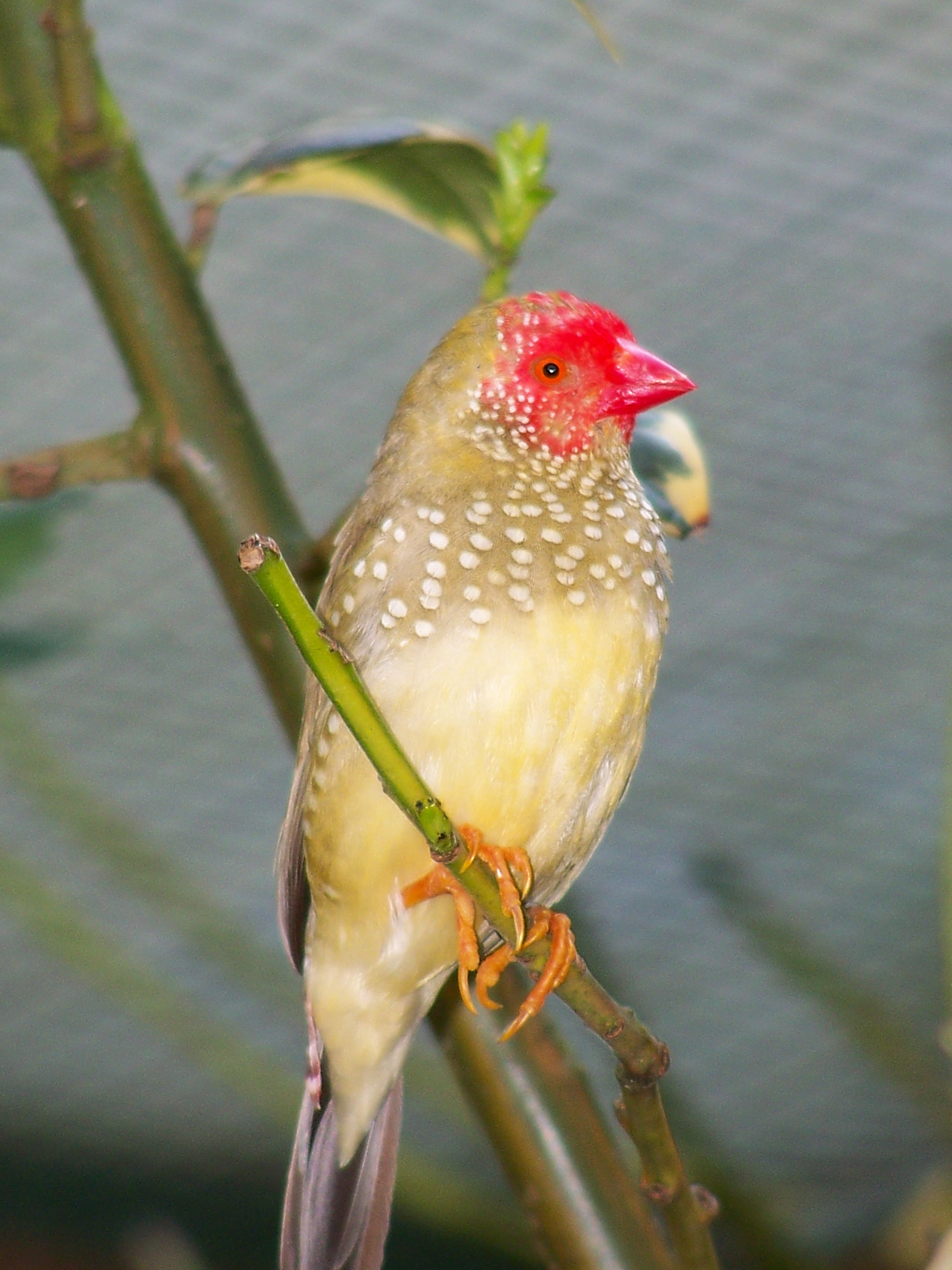 Star Finch male